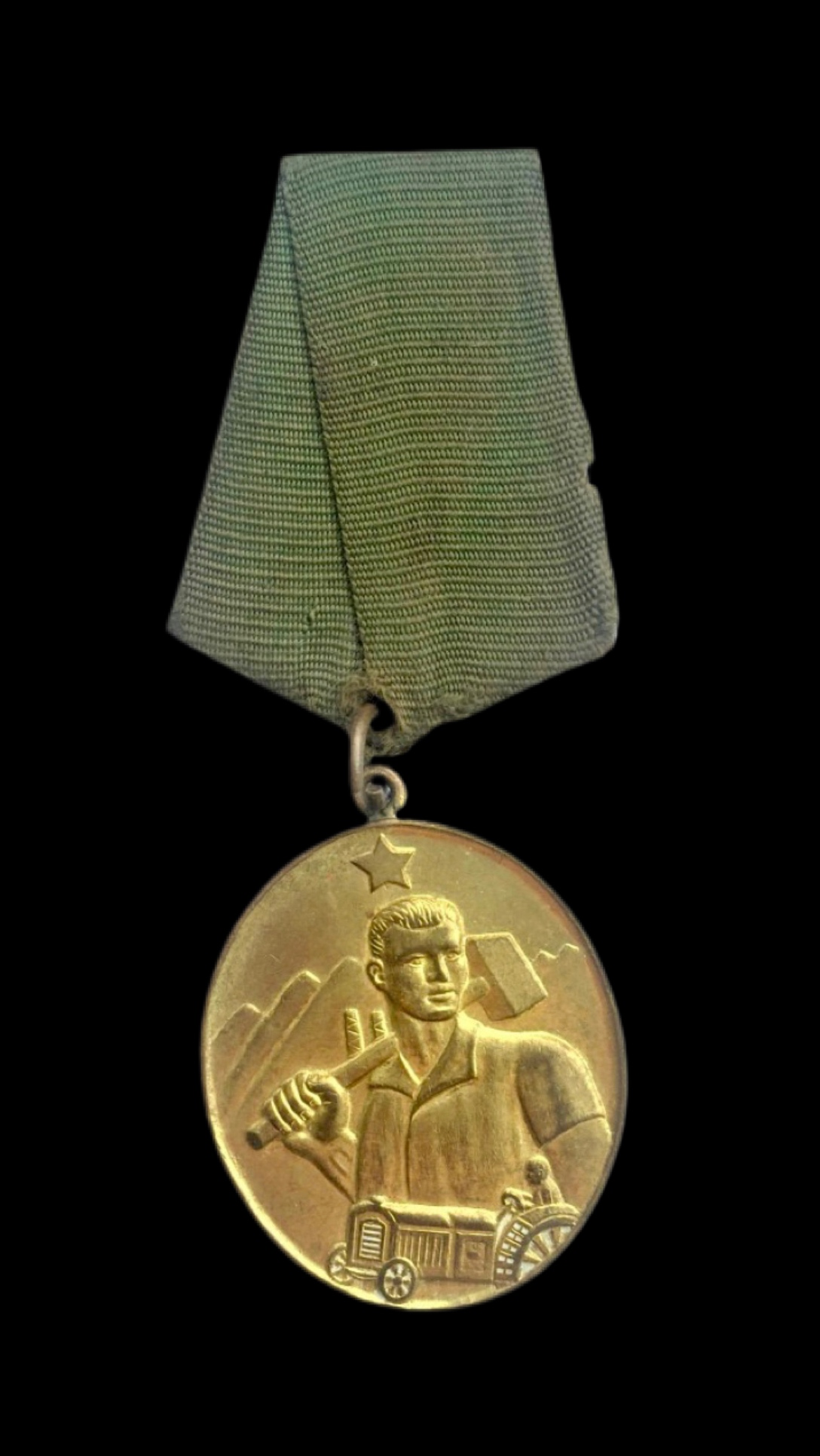 Albanian Socialist People's Republic Labor Medal Badge.